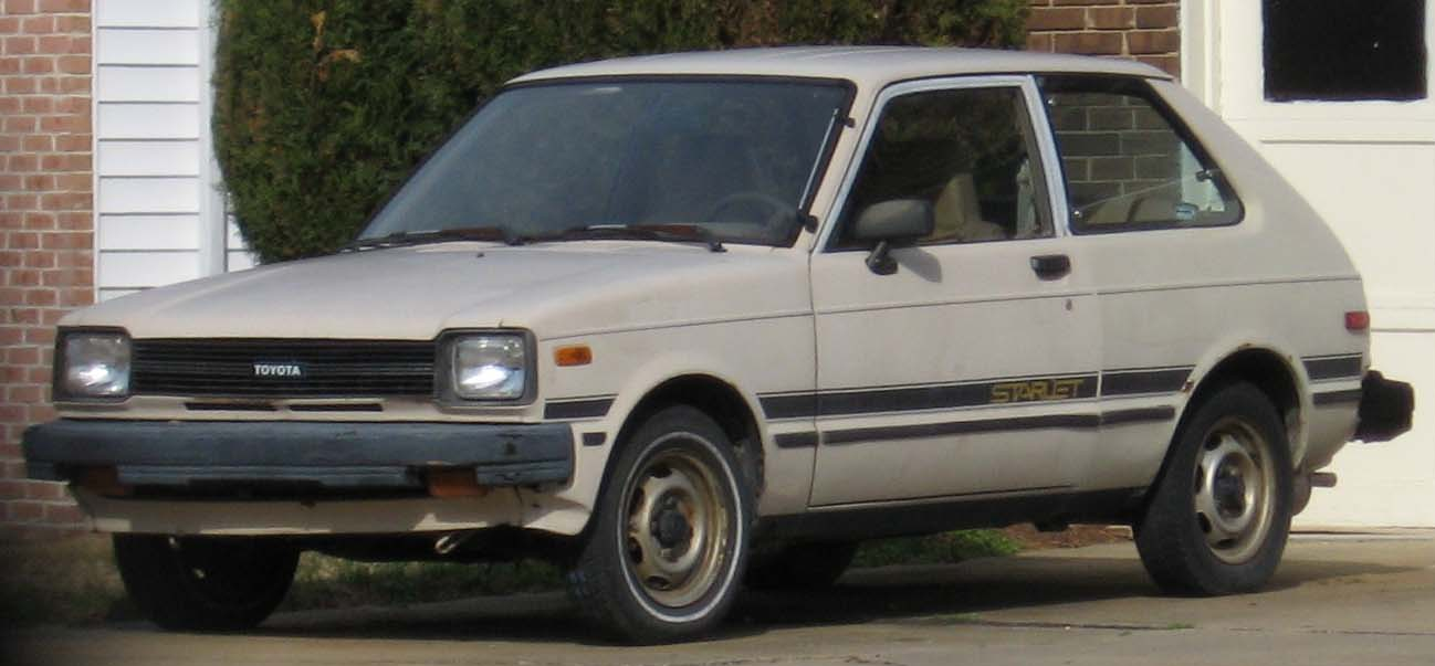 1980-1982 Toyota Starlet photographed in USA.